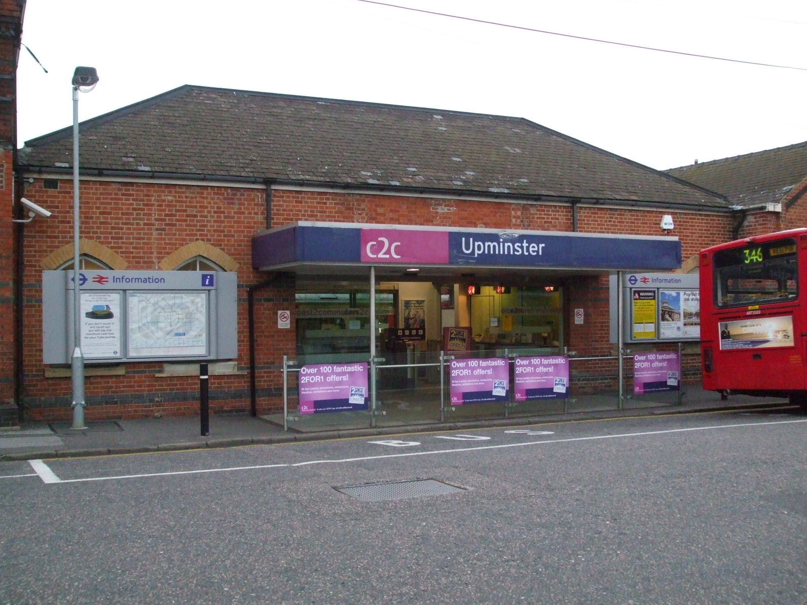 Upminster station side entrance, on the London-bound side